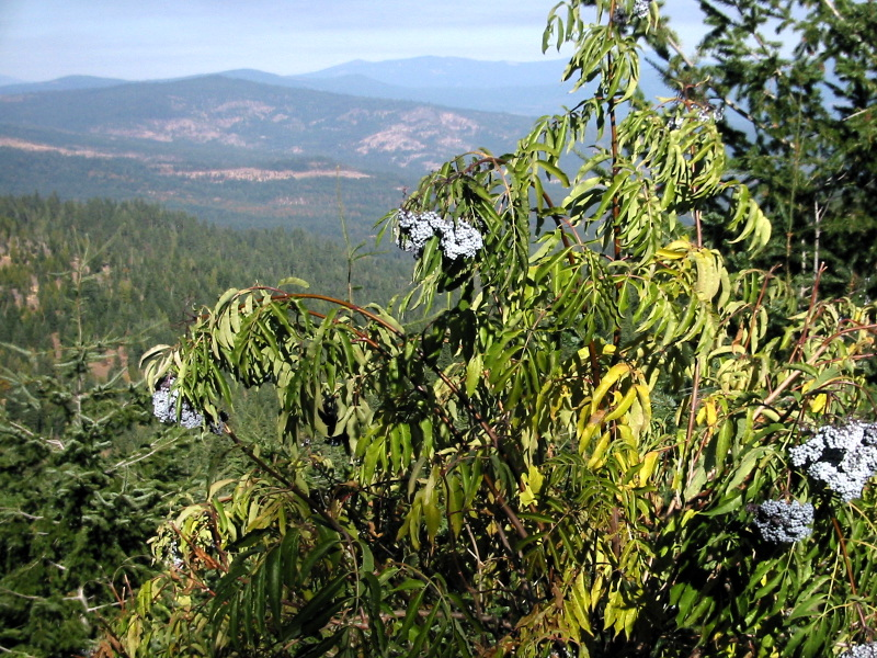 Sambucus caerulea Description: Blueberry Elder, Sambucus caerulea and terrain Viewpoint location: Soda Mountain Road about 1.3 km east northeast of Soda Mountain, Cascade-Siskiyou National Monument. Lat/Long: 42.0683°N, 122.4660°W (WGS84/NAD83) USGS Soda Mountain Quad [1] Viewpoint elevation: 5410' View direction: Northeast Date and time: 2005.10.22 14:56:043 PDT Camera: Canon PowerShot S110 Photographer: Walter Siegmund ©2005 Walter Siegmund